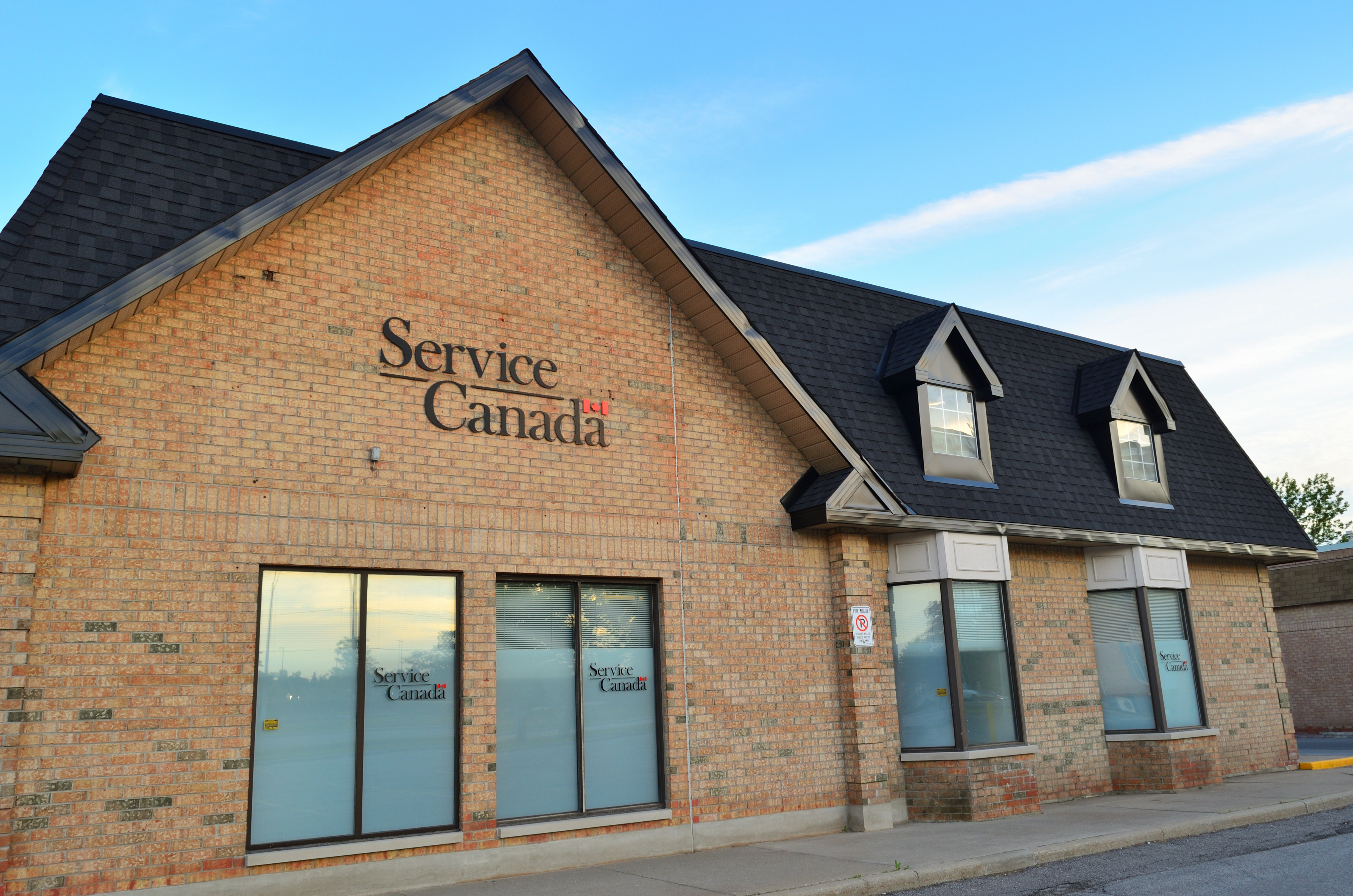 Service Canada - Address: 5051 Hwy 7 #14, Markham, ON L3R 1N3